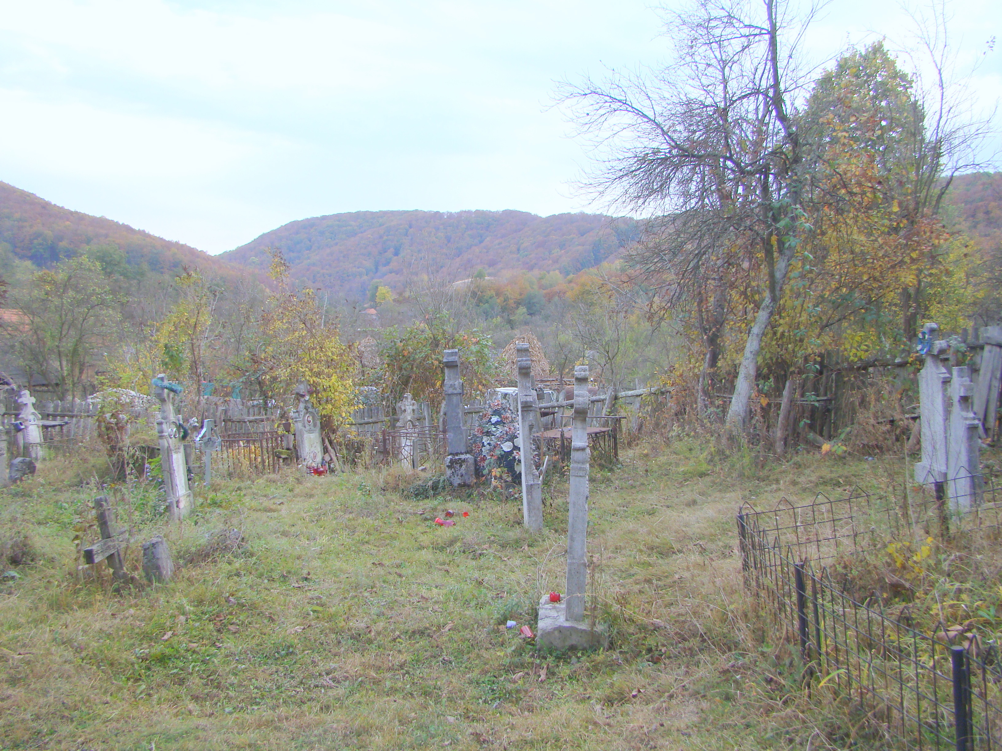 Wooden church in Pistrița, Mehedinți county, Romania